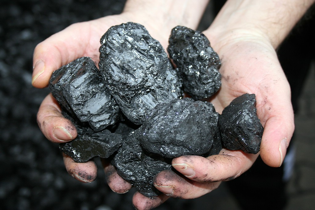 Black Gold from Saarland